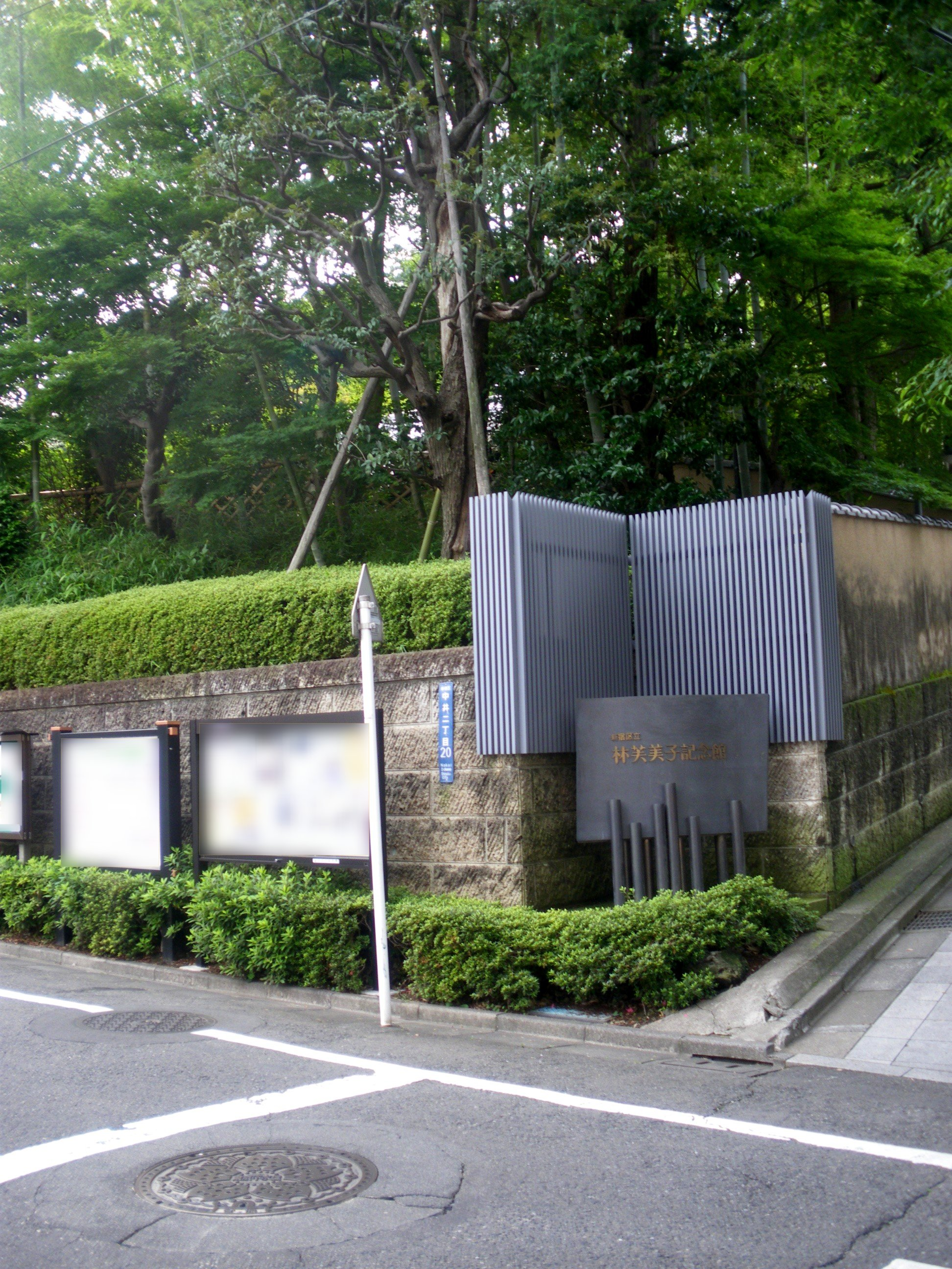 Hayashi Fumiko Memorial Hall(Nakai,Shinjuku,Tokyo)